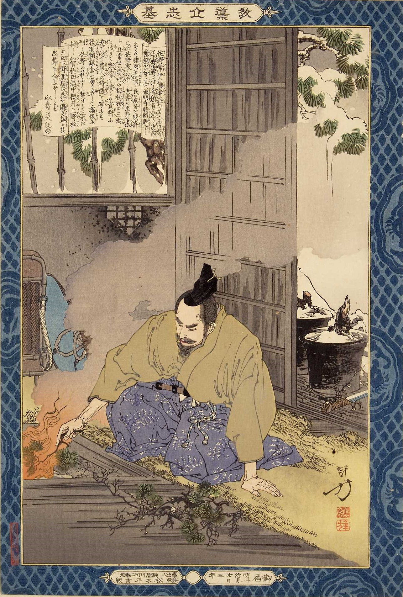 Sano Tsuneyo, from the series Instruction in the Fundamentals of Success, Woodblock print